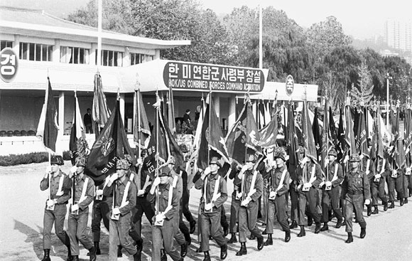 ROK/US Combined Forces Command Activation